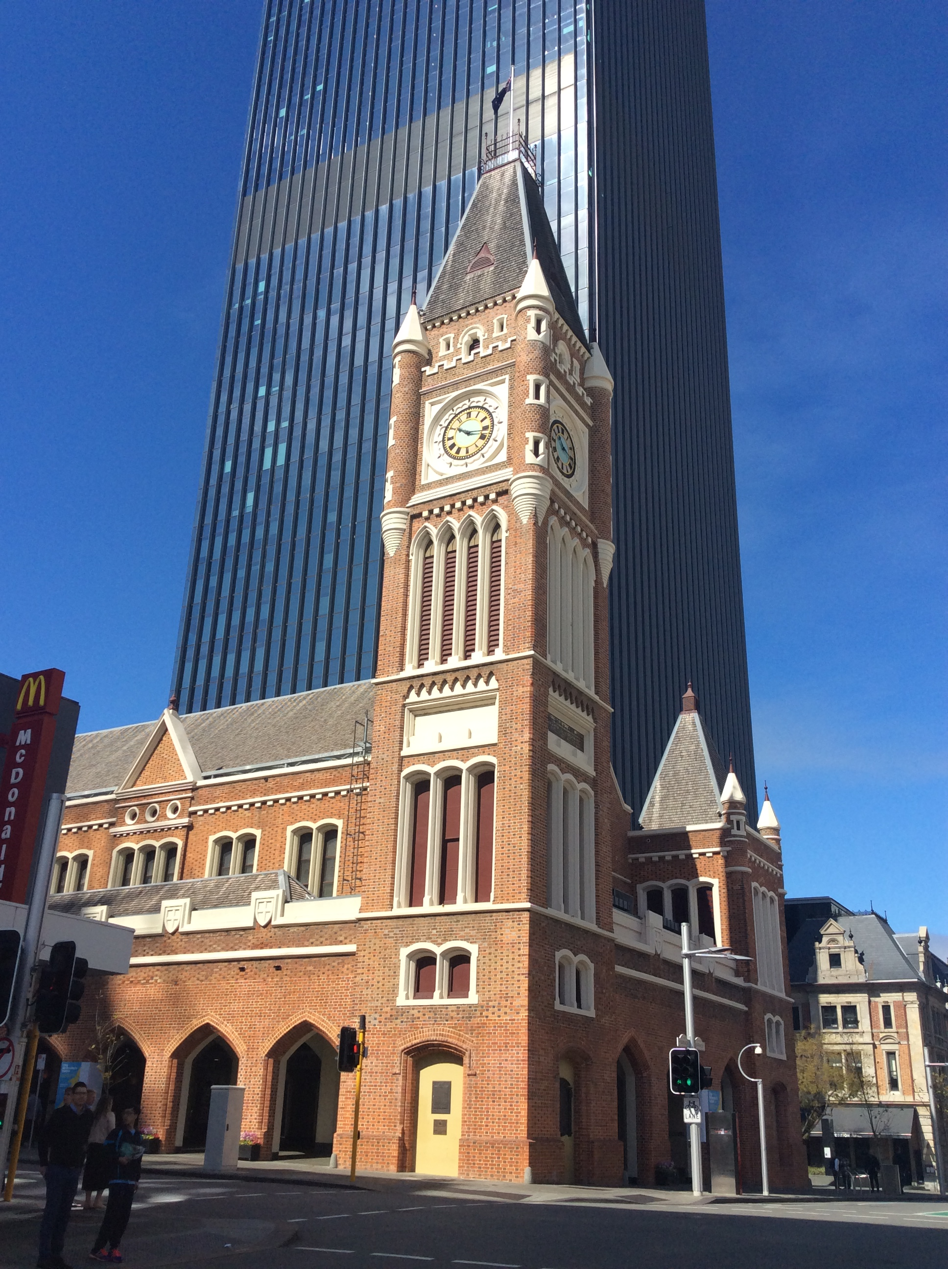 Perth Town Hall (Q7170899)